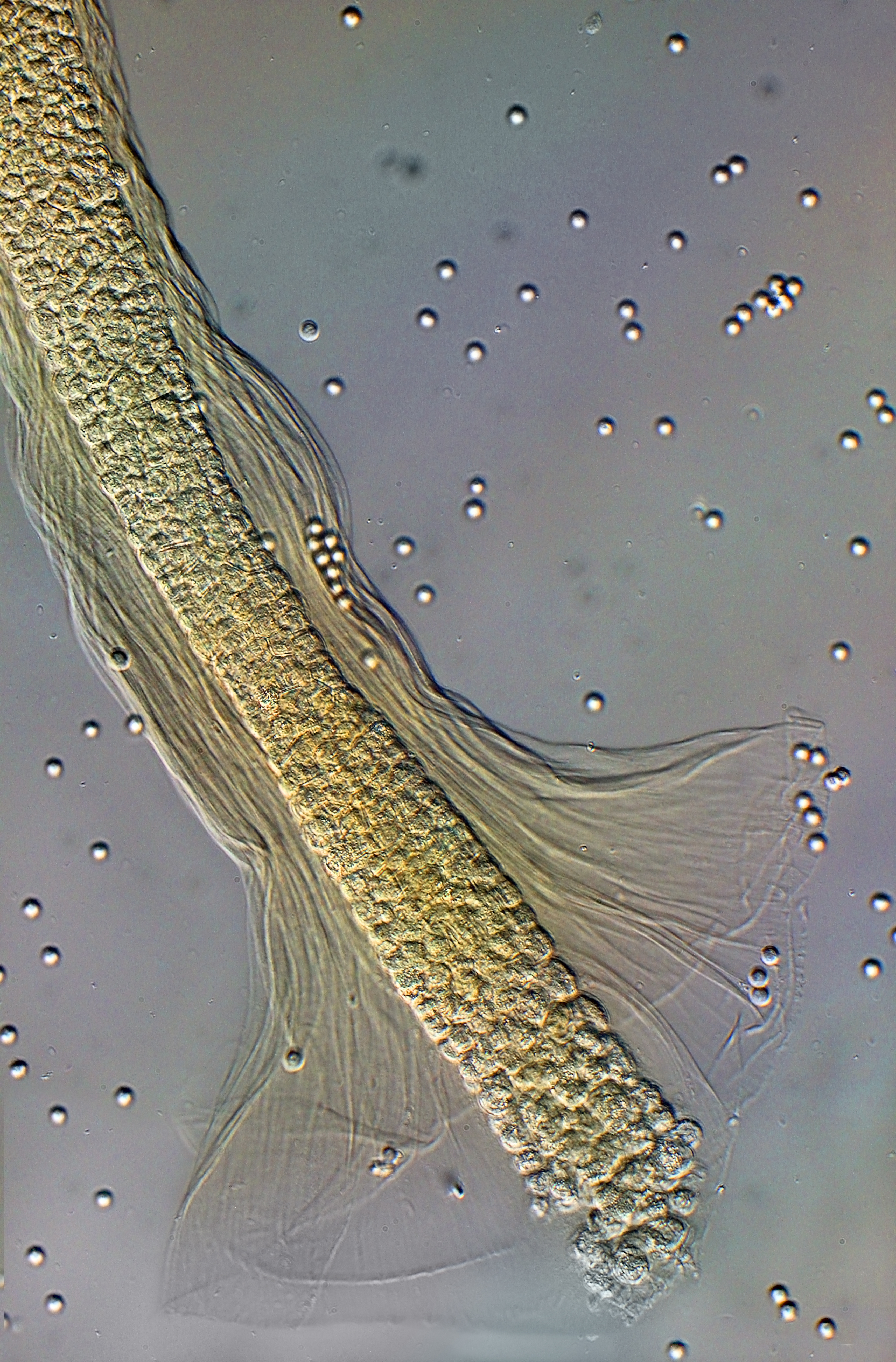 The stalk of the fruiting body of the myxomycete Arcyria marginata, collected in Tailand, is composed of cells, covered with tender slime cover. Myxomycetes are giant amoebae, capable to form fungi-like fruiting. Magnification ×400.